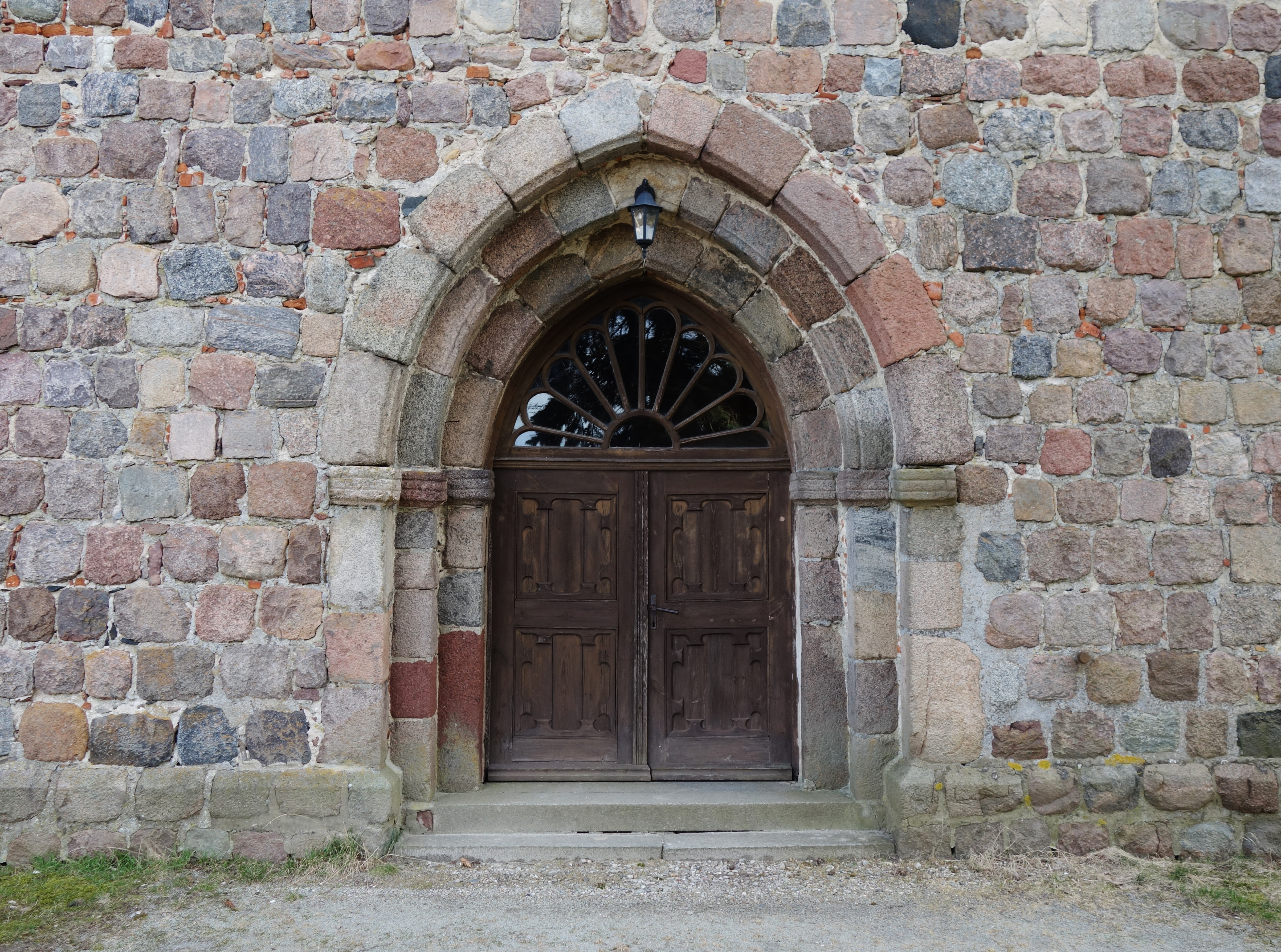 Western portal of the church in Bertikow , Uckerfelde municipality , Uckermark district, Brandenburg state, Germany